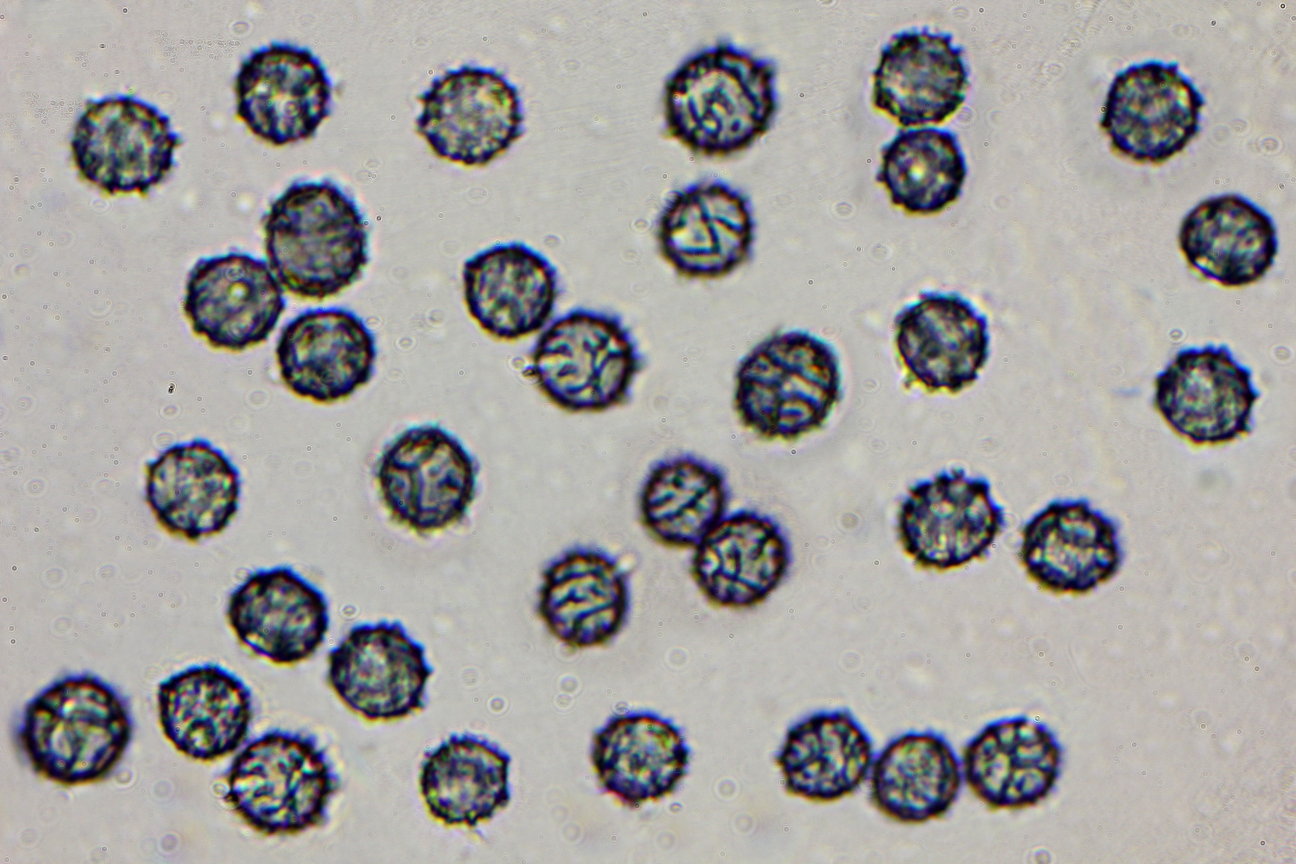 This image is Image Number 301297 at Mushroom Observer, a source for mycological images. This tag does not indicate the copyright status of the attached work. A normal copyright tag is still required. See Commons:Licensing for more information.